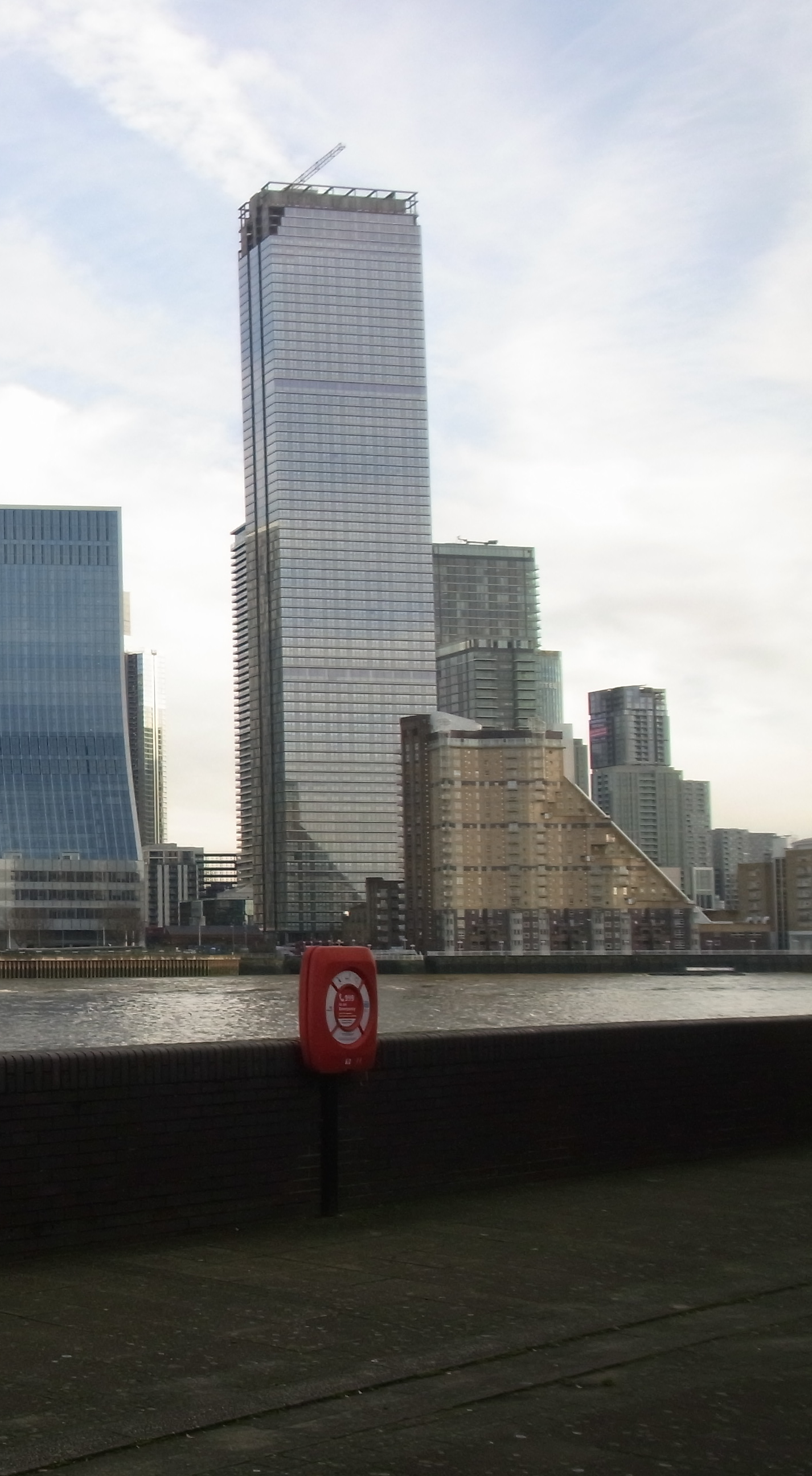 Landmark Pinnacle (centre) in December, 2019